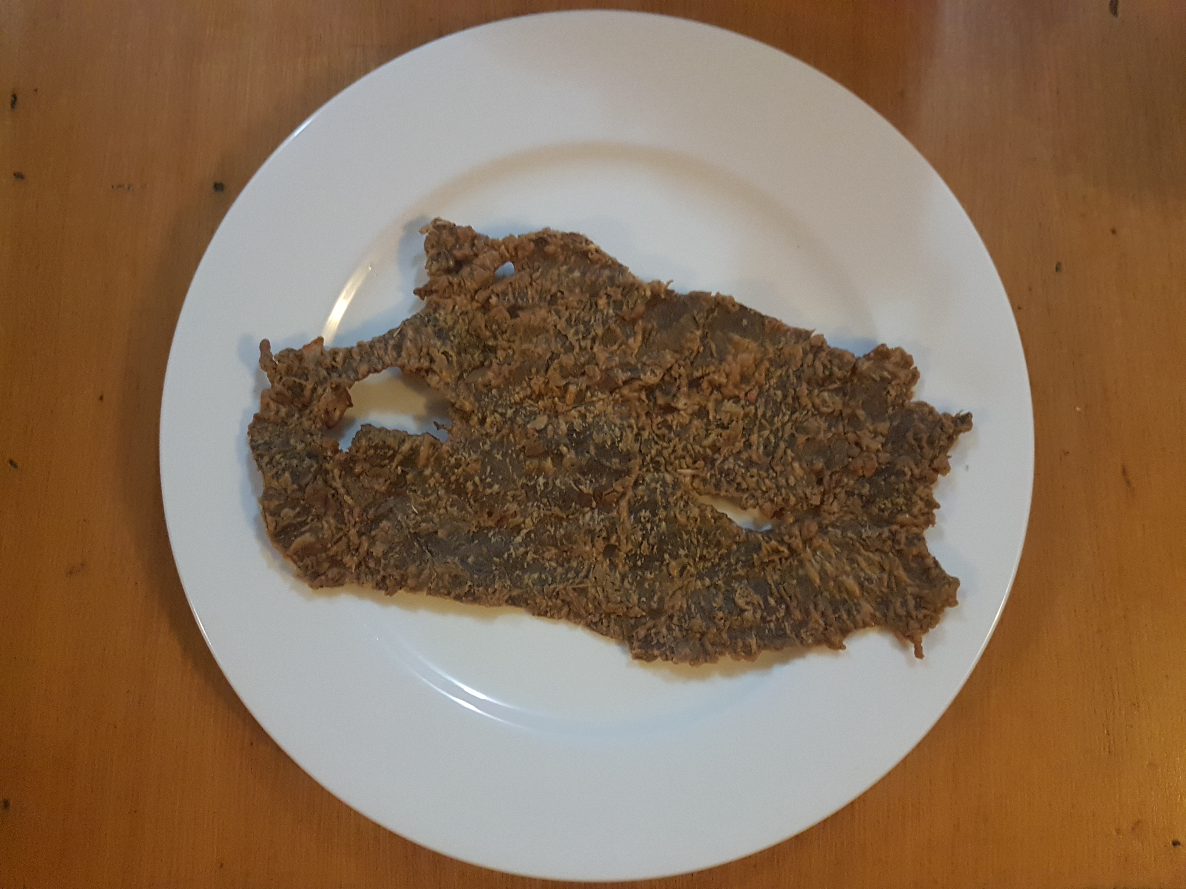 Camel kilishi from Maiduguri, Nigeria, June 2017.